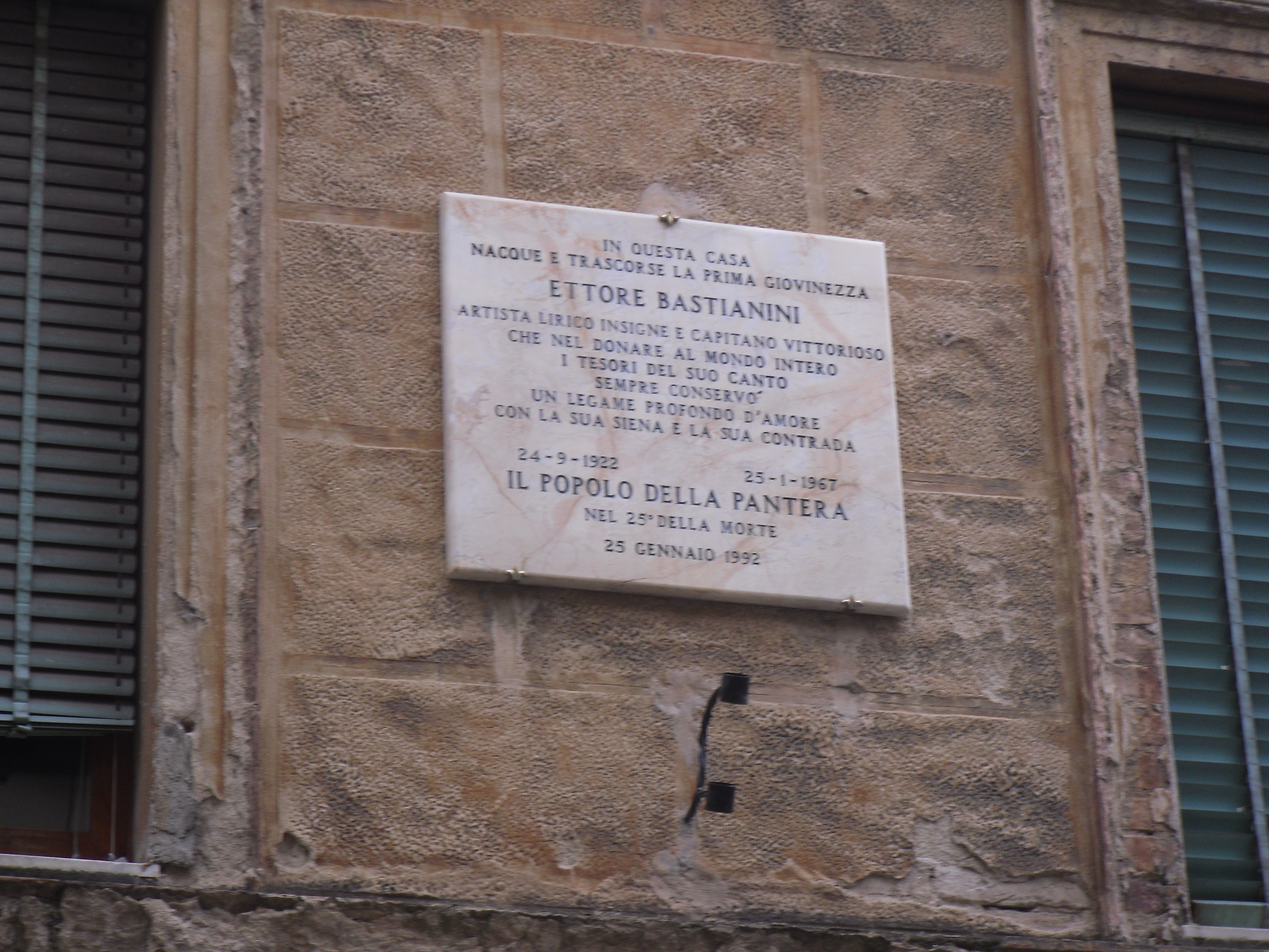 Plaque affixed by the Contrada of Pantera on the façade of Ettore Bastianini's birth house, in via Paolo Mascagni, in Siena, on the 25th anniversary of his death. The plaque says: «In this house was born and spent his childhood Ettore Bastinini, renowed lyrical artist and 'victorious captain, who, in donating to the entire world the treausers of his singing, forever kept a deep love tie with his Siena and his Contrada».